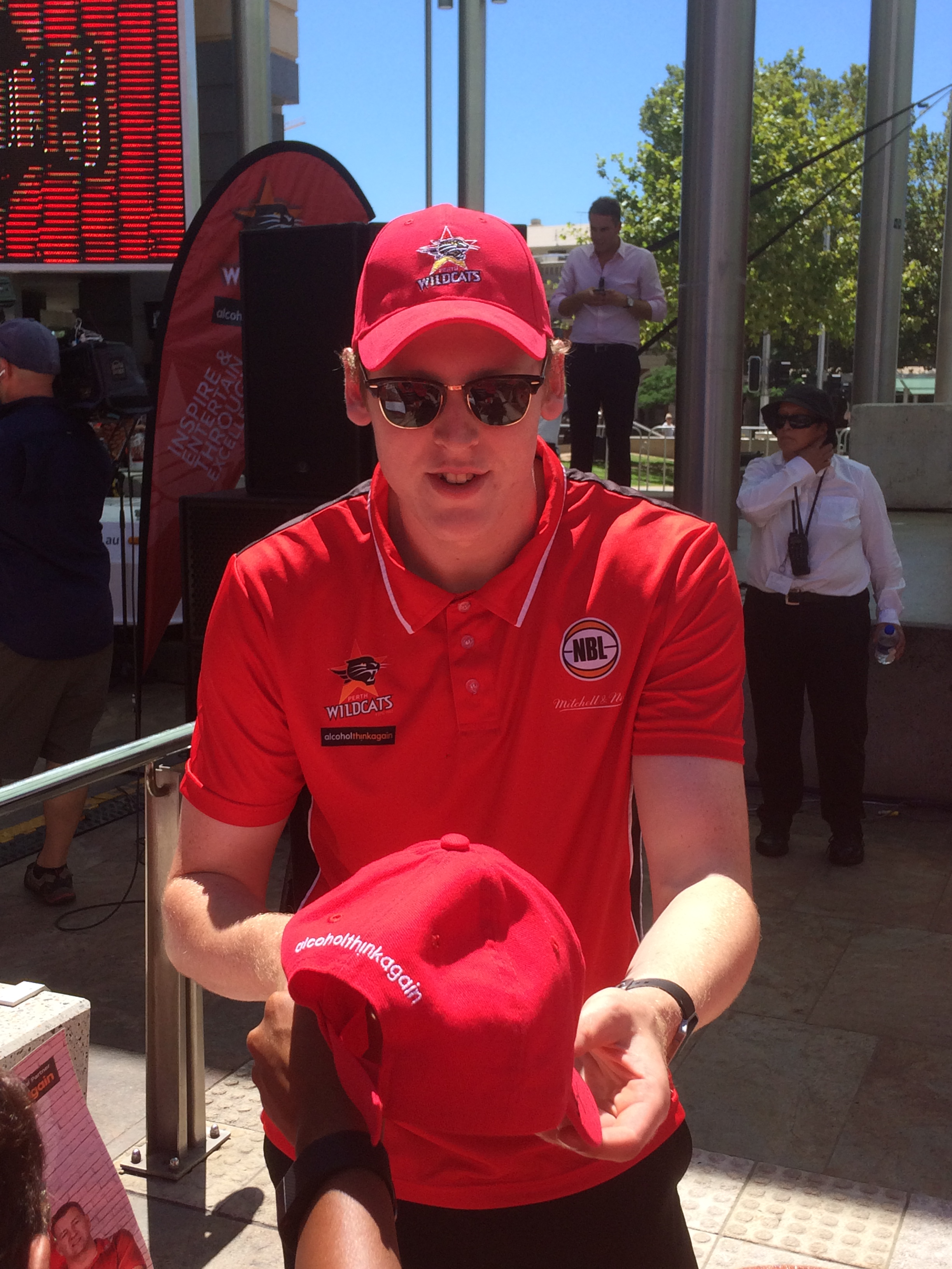 Rhys Vague at the Perth Wildcats' 2017 championship celebration